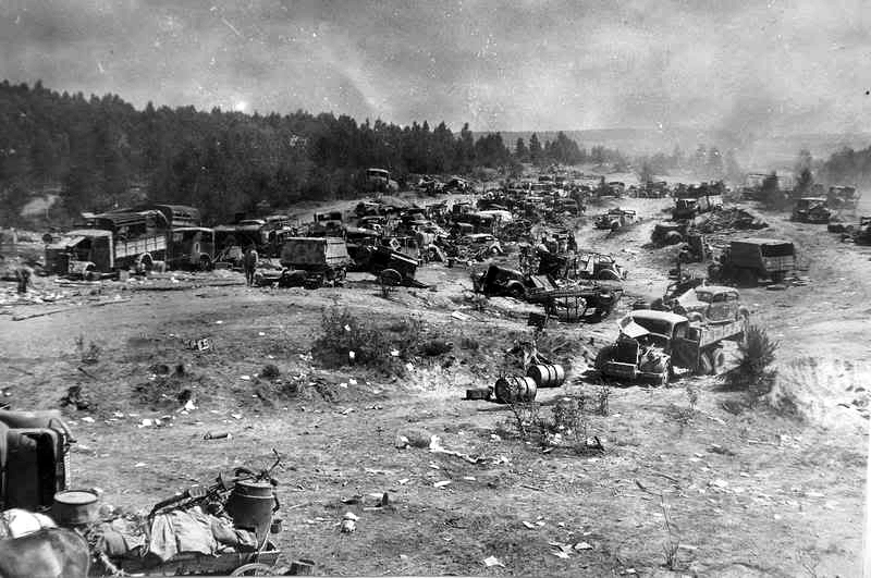 Abandoned and destroyed vehicles of the german 9th army at a road near Titovka/Bobruysk (Belarus). The image is part of a foto series being made to document the war achievements of the the soviet 16th Air Army. (Central Archives of the Russian Ministry of Defence, F. 233, Op. 2356, d. 391, t. 1)